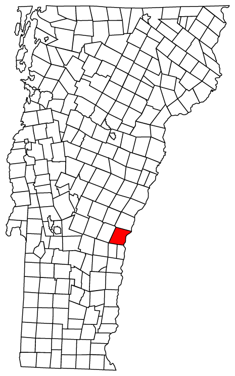 Description: Map of Vermont towns with Hartland highlighted Source: Map created by Jared C. Benedict on 26 March 2004. Copyright: © Jared C. Benedict.